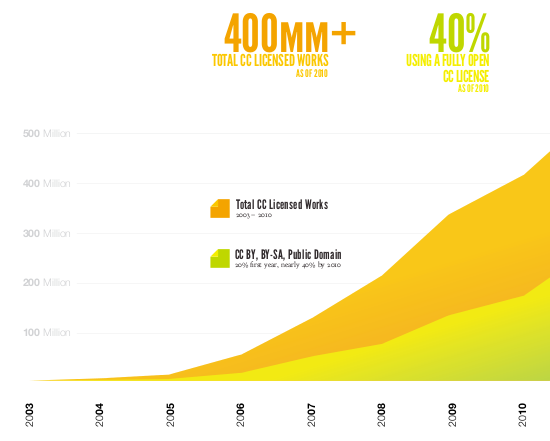 Creative Commons licenses usage statistics (2010) - adoption chart from "The Power of Open"